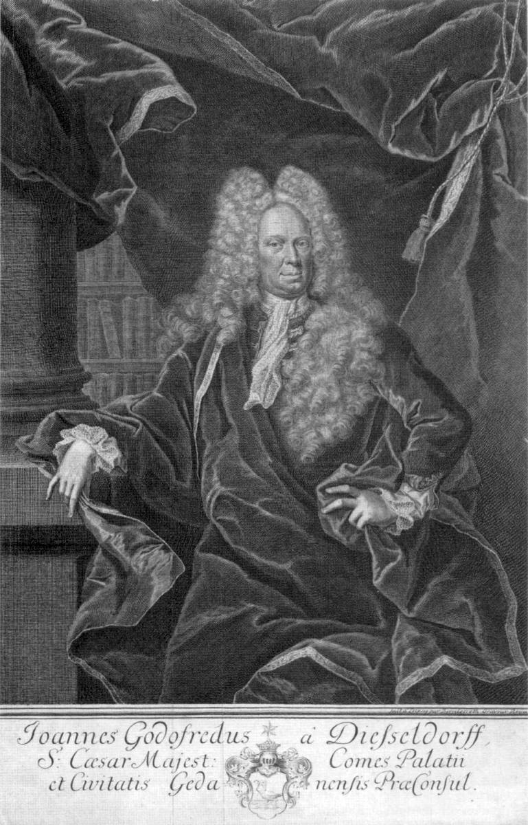 Johann Gottfried von Diesseldorf (1668-1745), Mayor of Gdańsk. Engraving Martin Bernigeroth.